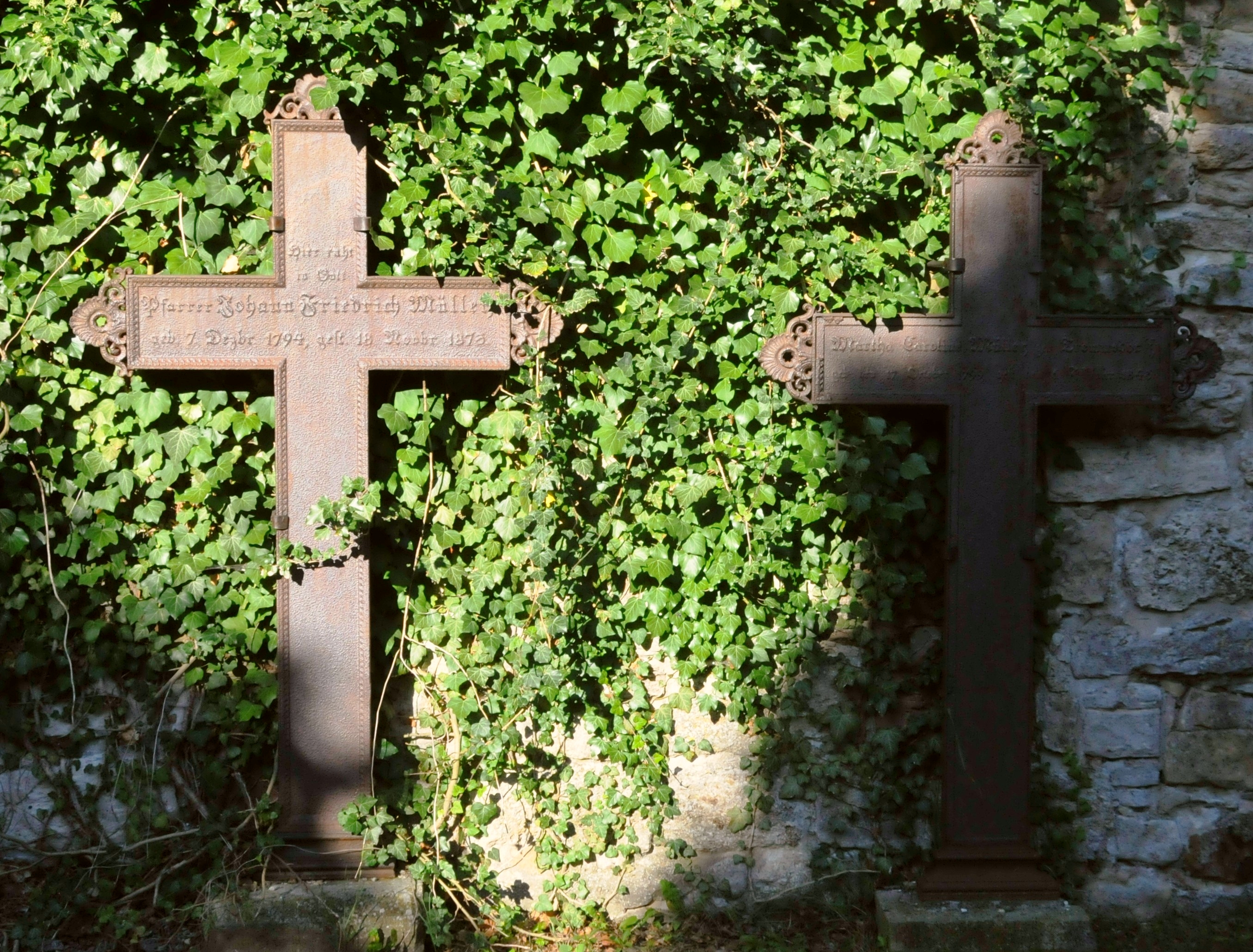 Gravecross of parents of Hermann Müller (Lippstadt) in Mühlberg (Thuringia)